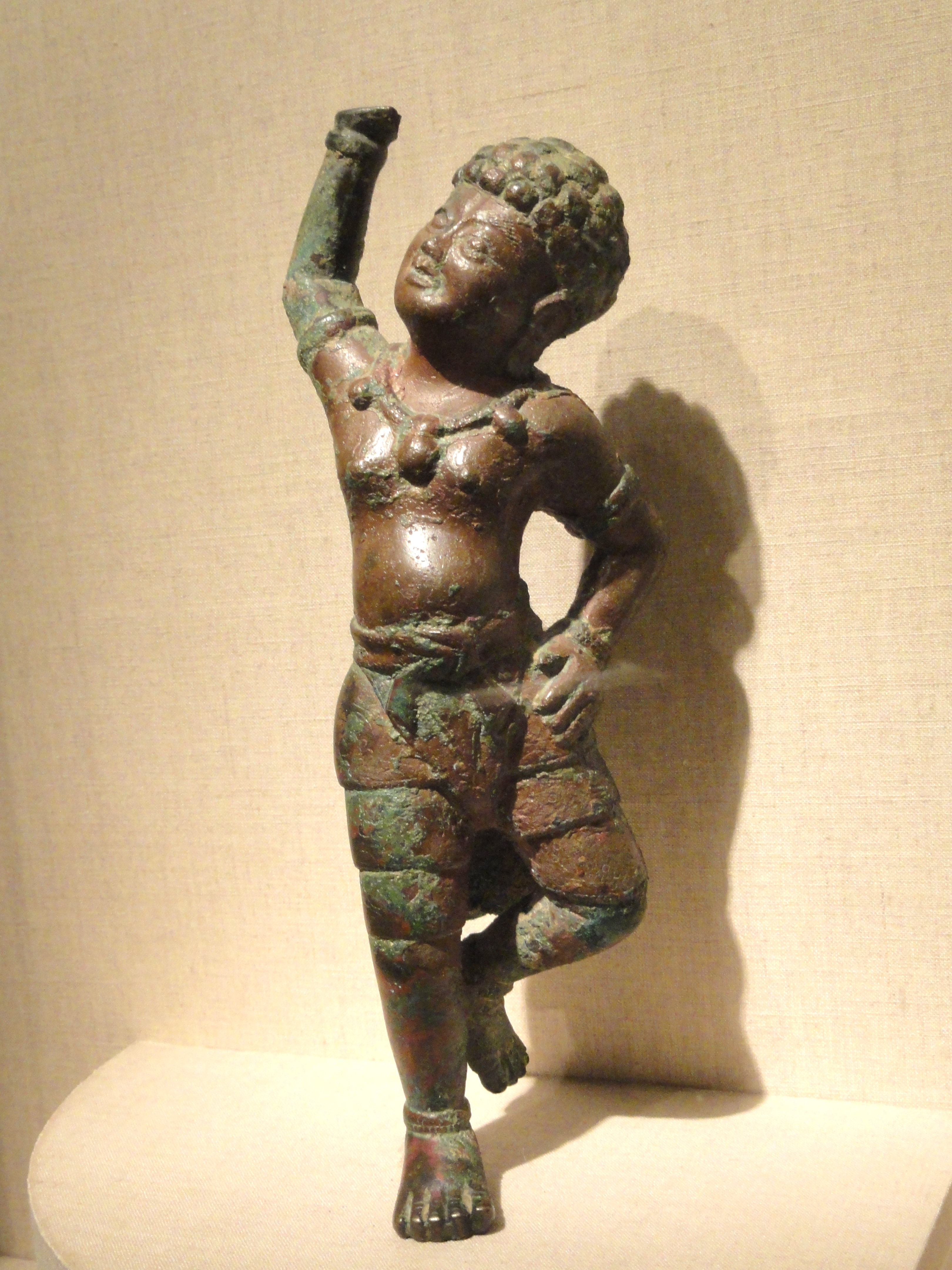 Exhibit in the Arthur M. Sackler Gallery, Washington, DC, USA. This artwork is old enough so that it is in the public domain.